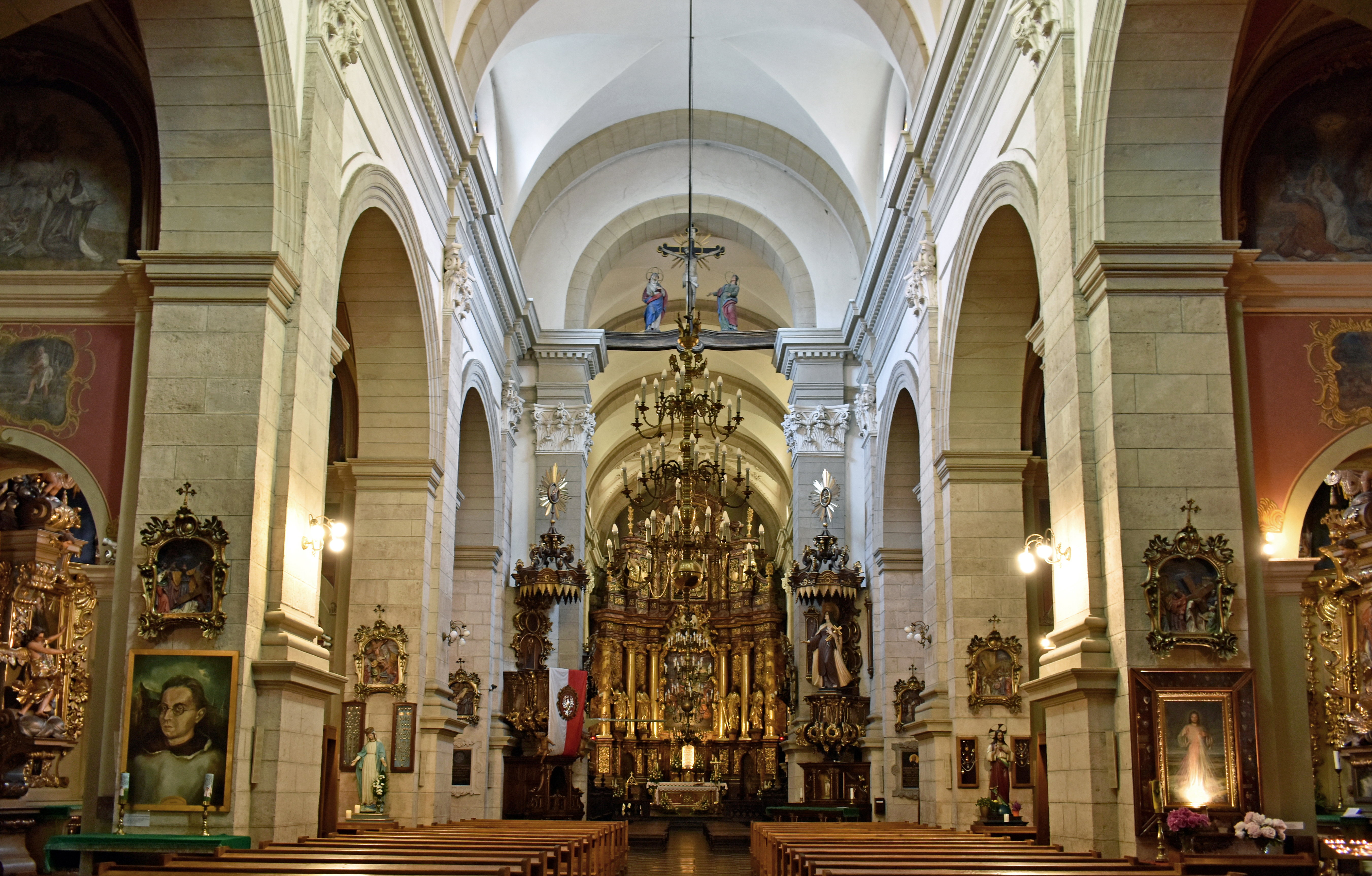 Church of the Visitation of the Blessed Virgin Mary (interior), 19 Karmelicka street, Krakow, Poland